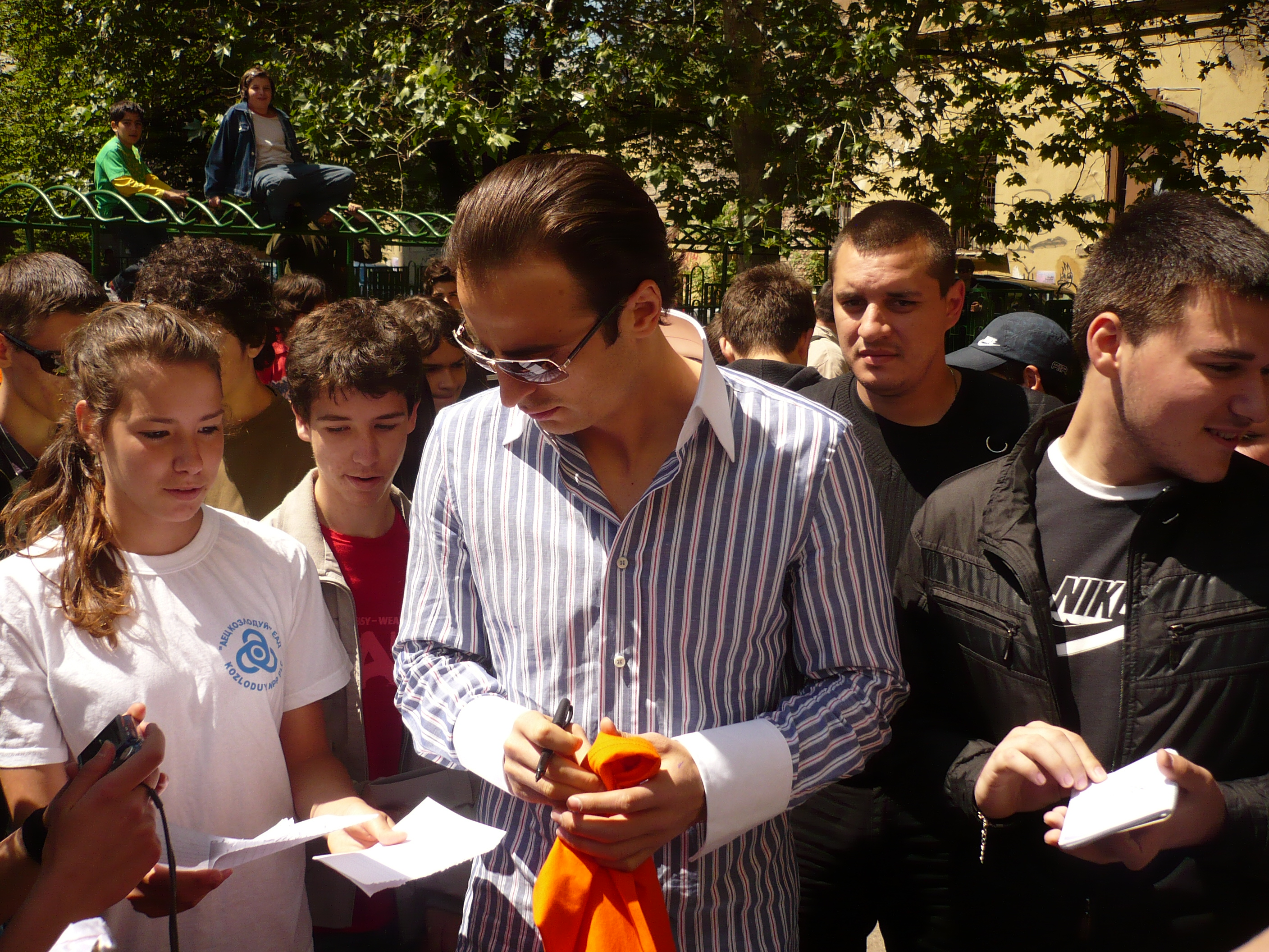 Dimitar Berbatov in Sofia, opening of a football tournament in the First English Language School, May 31, 2009.